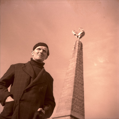 Constant Malva (Alphonse Bourlard) in Jemappes. Belgium